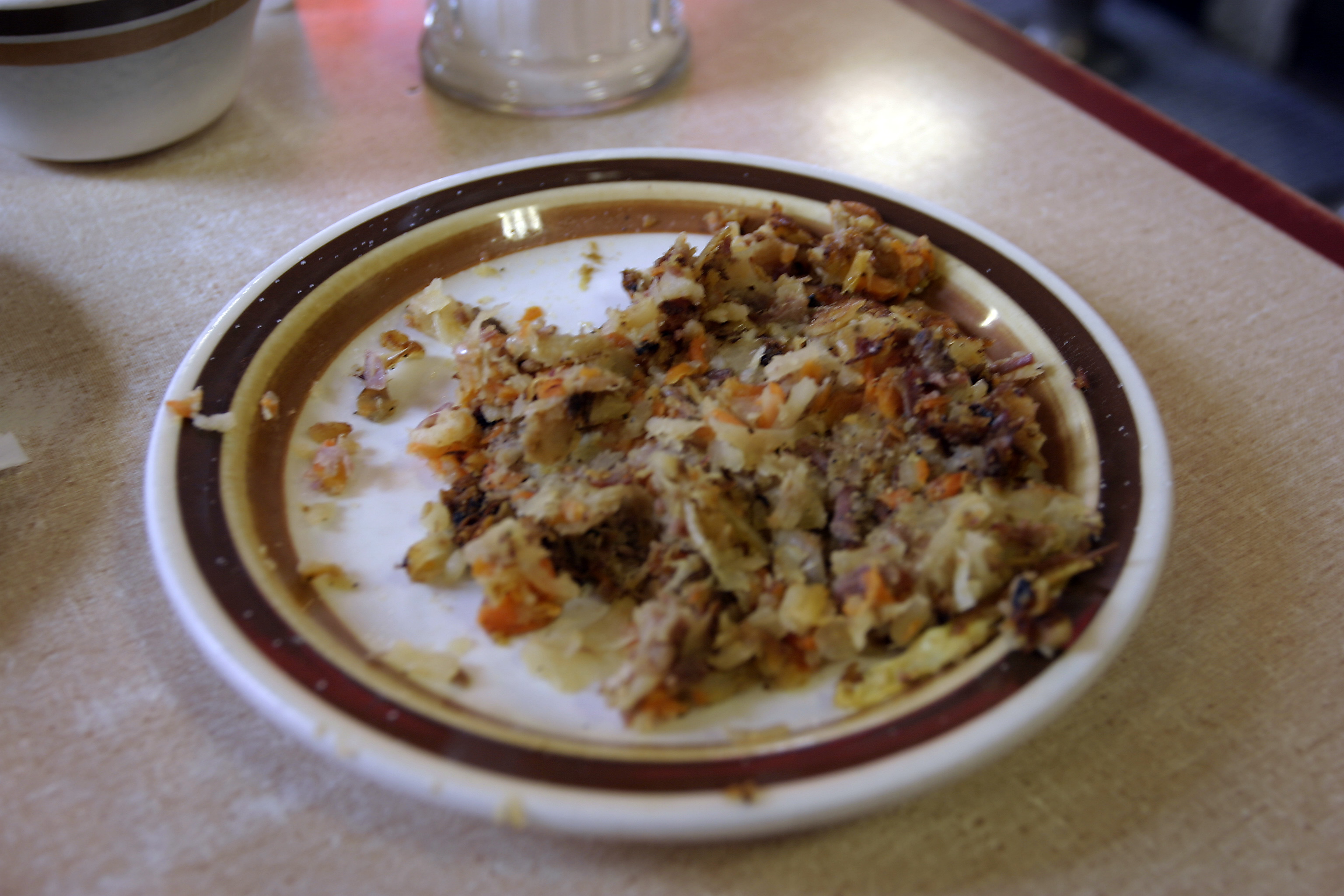 Corn beef hash including potatoes and carrot.